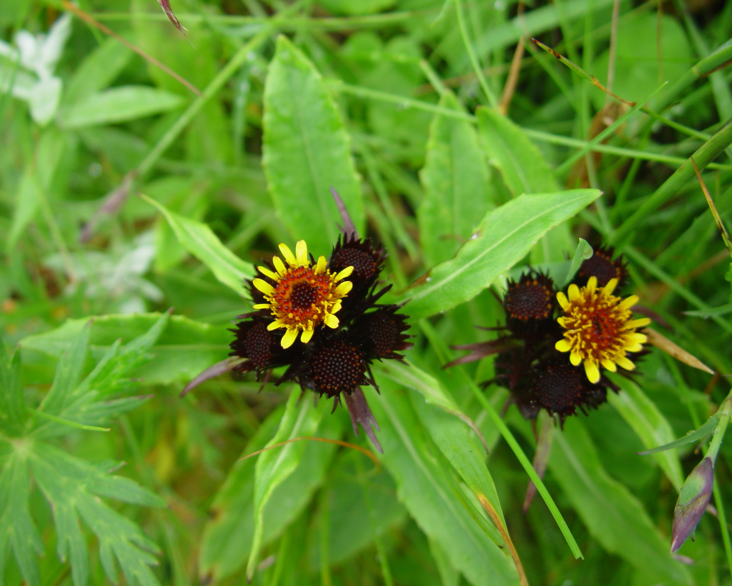 Tephroseris takedana (Kitam.) Holub, in Mount Kita, Japan.